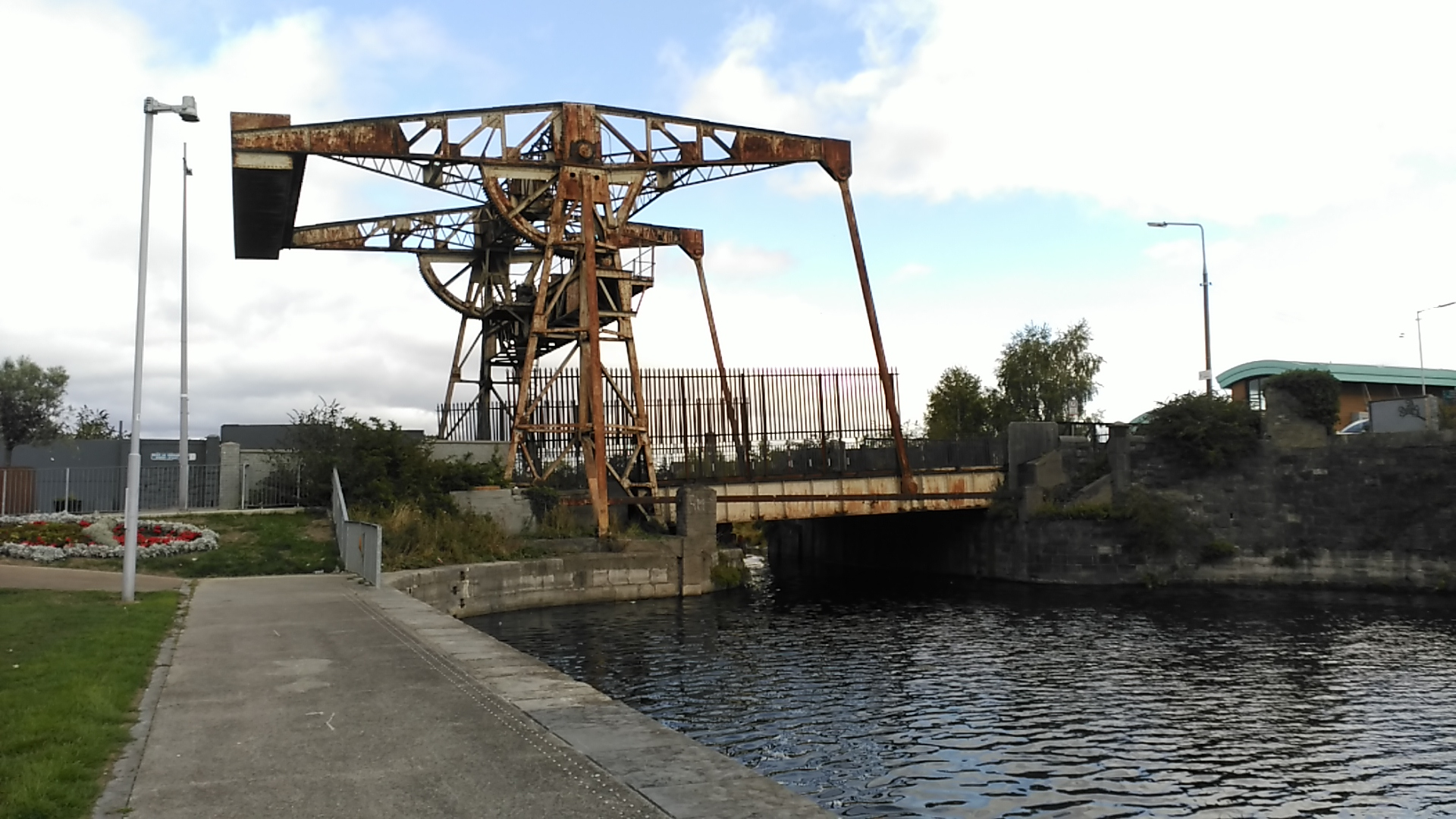 County Dublin, Sheriff Street Lifting Bridge. Wikidata has entry Q55049787 with data related to this item.